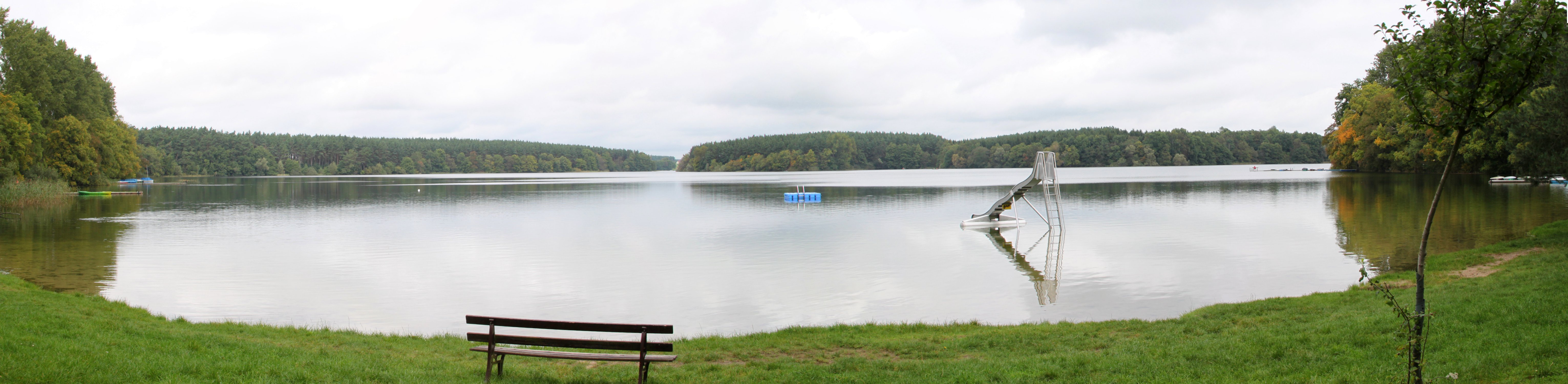 Lake Dreetzsee, view from the south shore